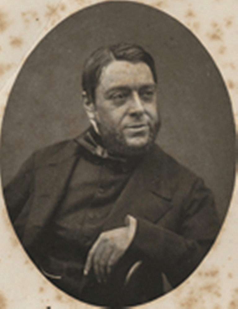 Photographic portrait (1890) of British naturalist Philip Henry Gosse (1810–1888)